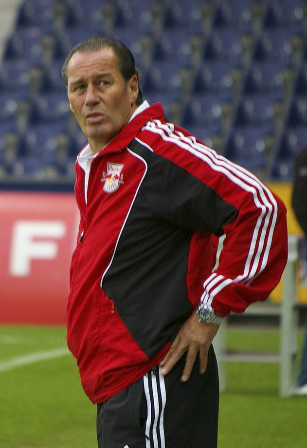 Huub Stevens Coach Red Bull Salzburg